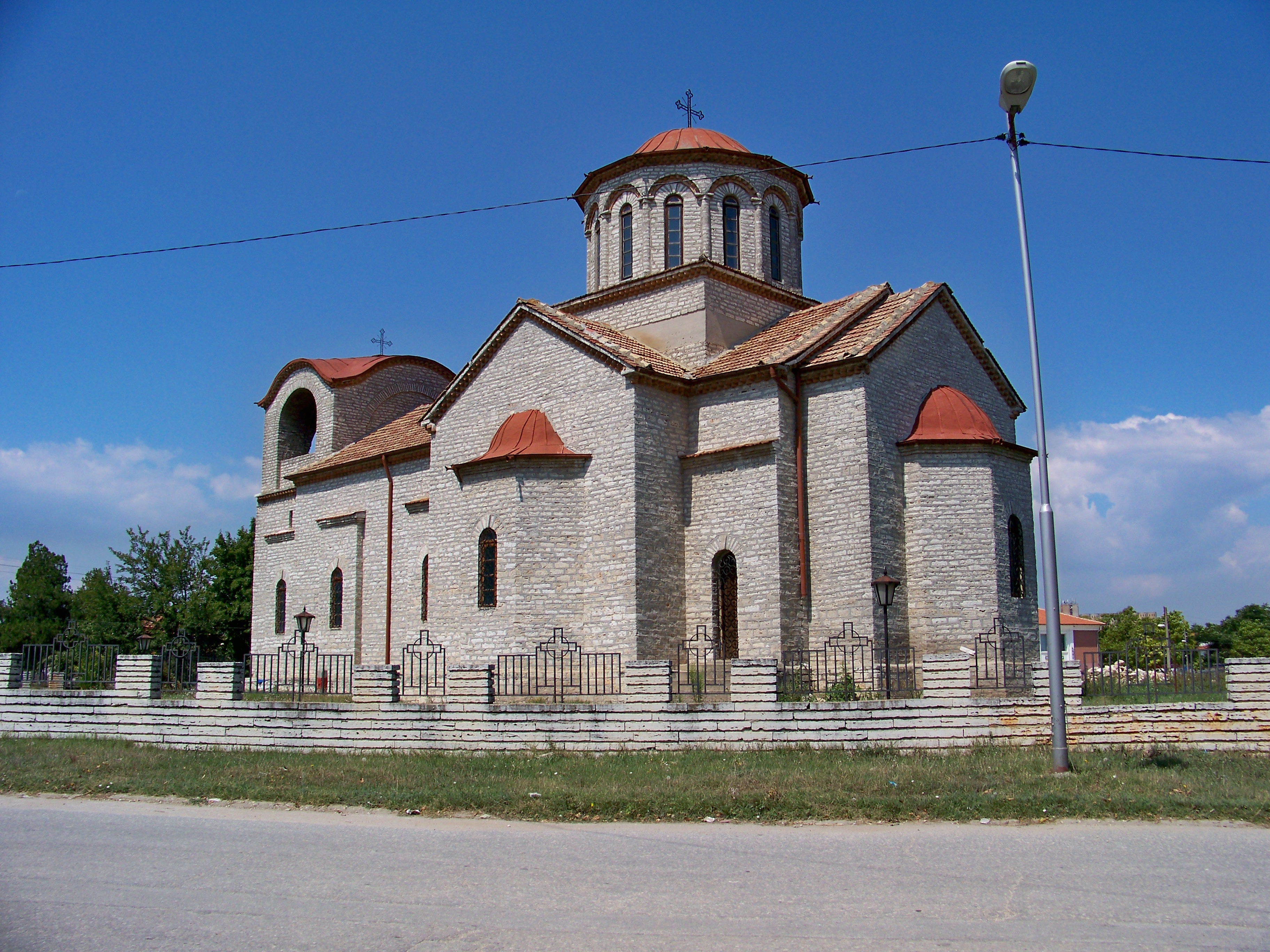 Is a Black Sea coastal town and seaside resort in the Southern Dobruja area of northeastern Bulgaria.